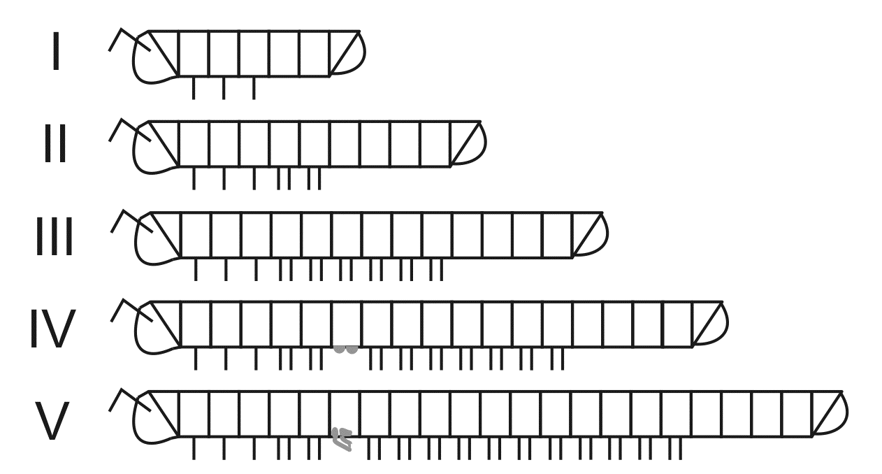 Anamorphic development in the millipede Nemasoma varicorne. The post-embryonic developmental stadia are numbered progressively. Walking legs are depicted as short lines, ventrally attached to the corresponding trunk ring, gonopod primordia as small ventral blobs on trunk ring VII, gonopods (two pairs) as complex structures also attached to trunk ring VII.